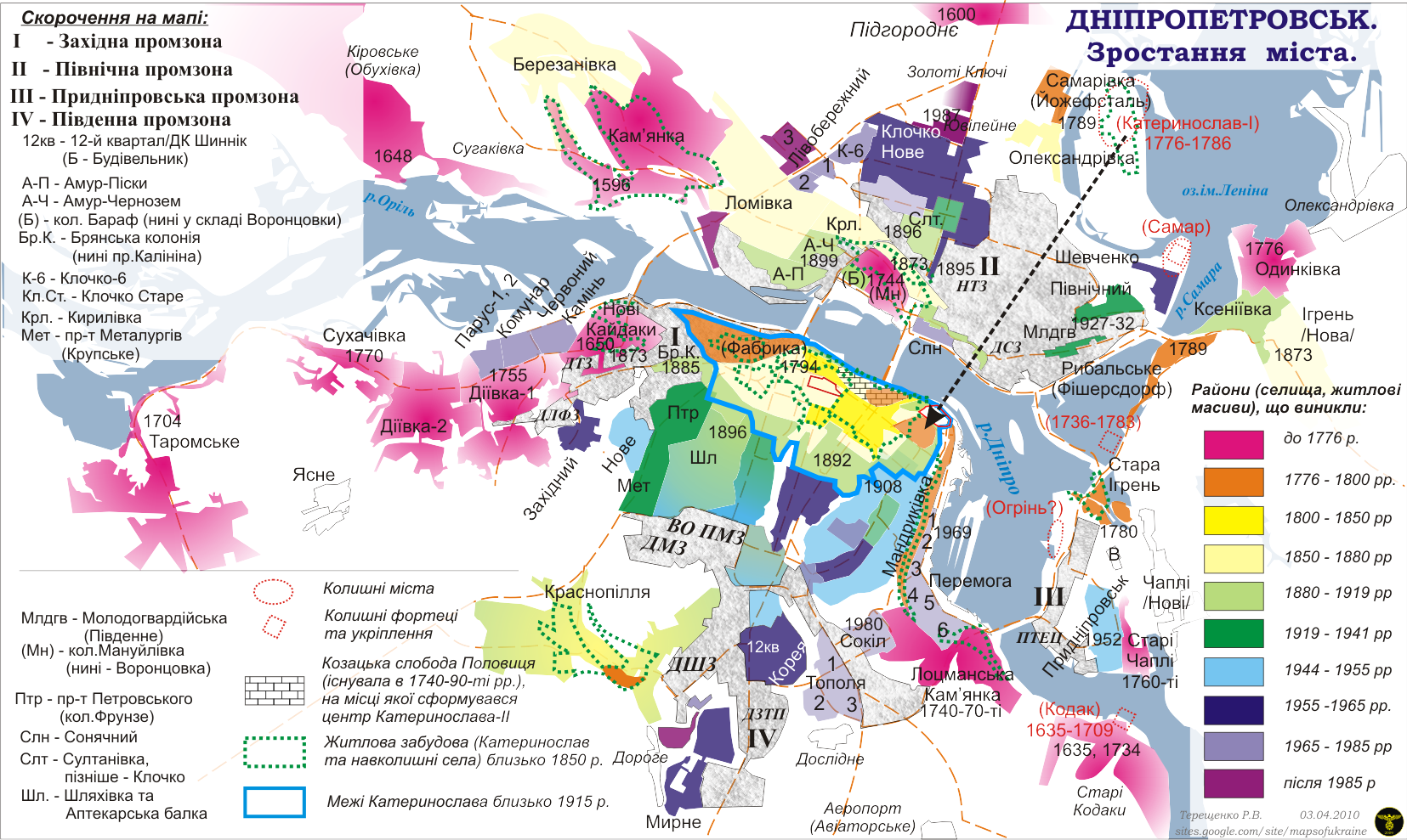 Development of Katerynoslav/Dnipropetrovsk